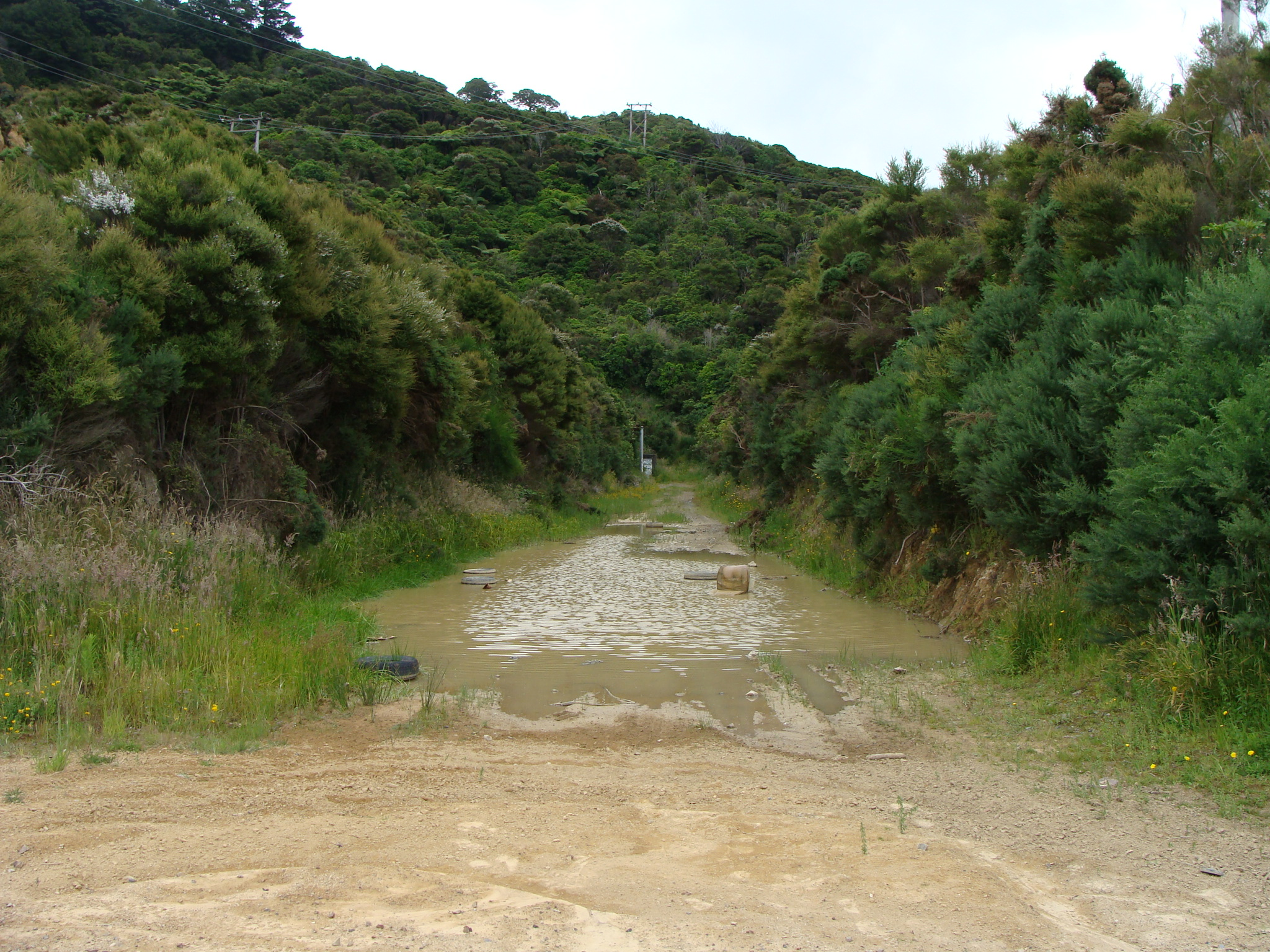 Access cutting for the Wainuiomata portal of the Wainuiomata Tunnel. The concrete structure in the distance (centre) provides pedestrian access via a stairwell into the Wainuiomata end of the tunnel.